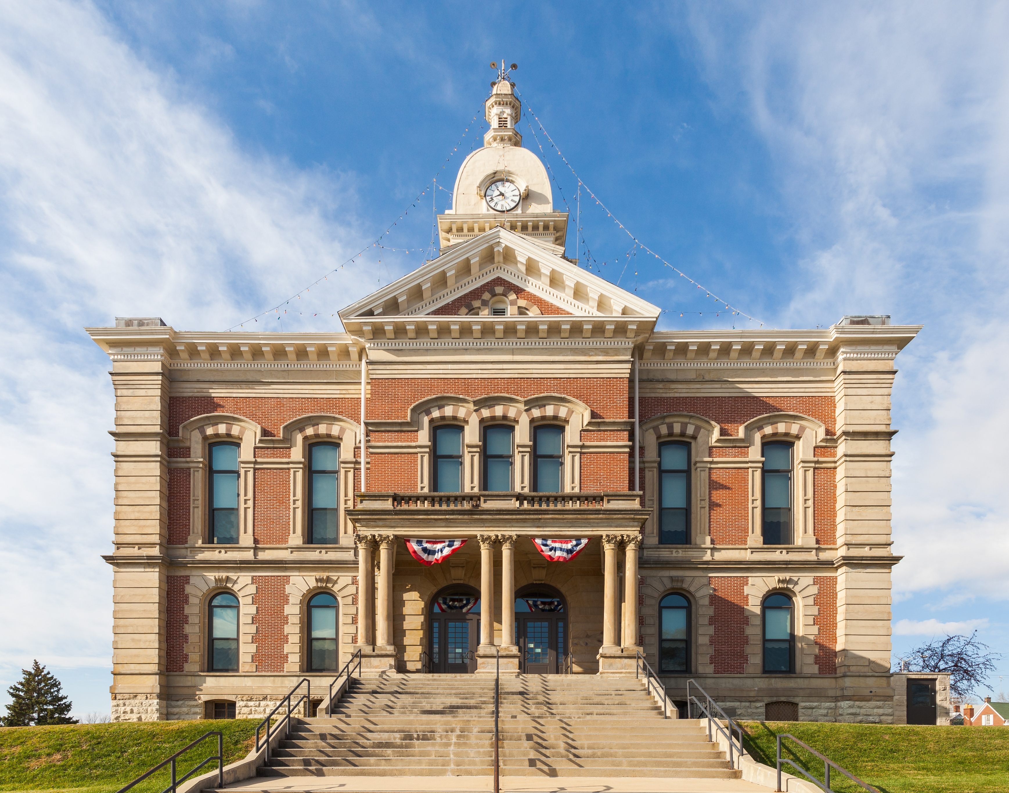 Wabash County Courthouse, Wabash, Indiana, USA